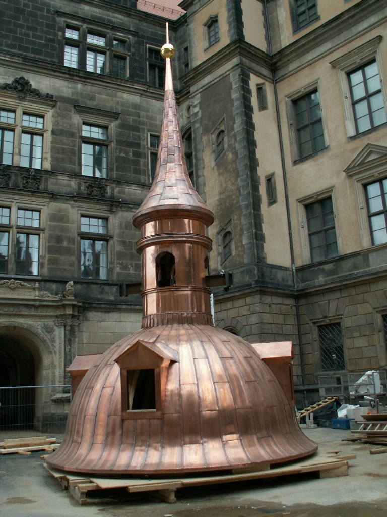 Copper roof for the Dresden castle